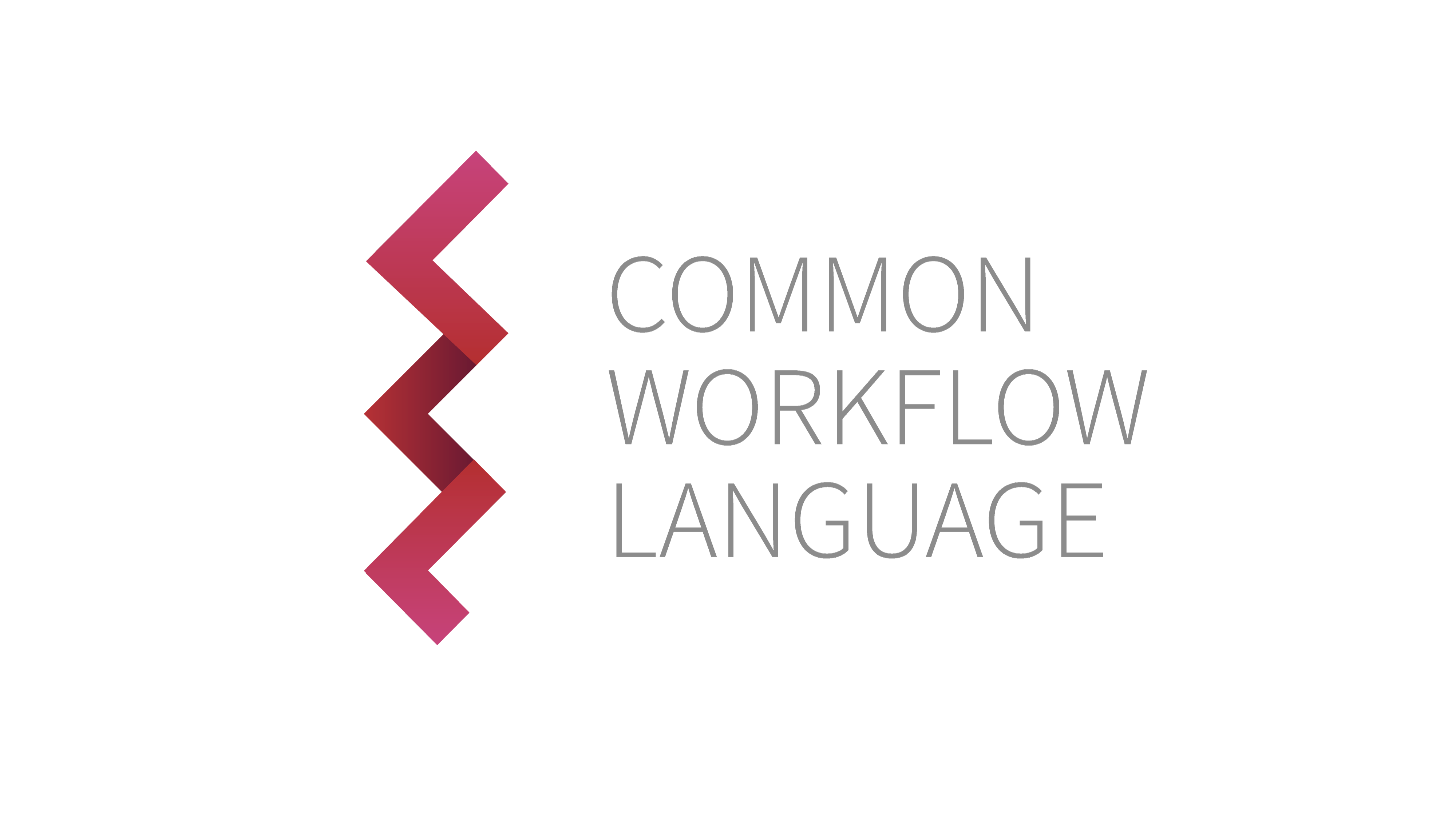 Logo for the Common Workflow Language Project